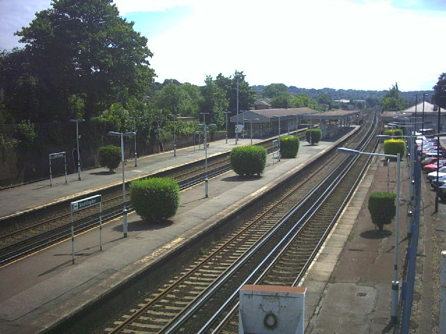 South Croydon Station, off St. Peter's Road - Taken from the footbridge just to the north of the station.